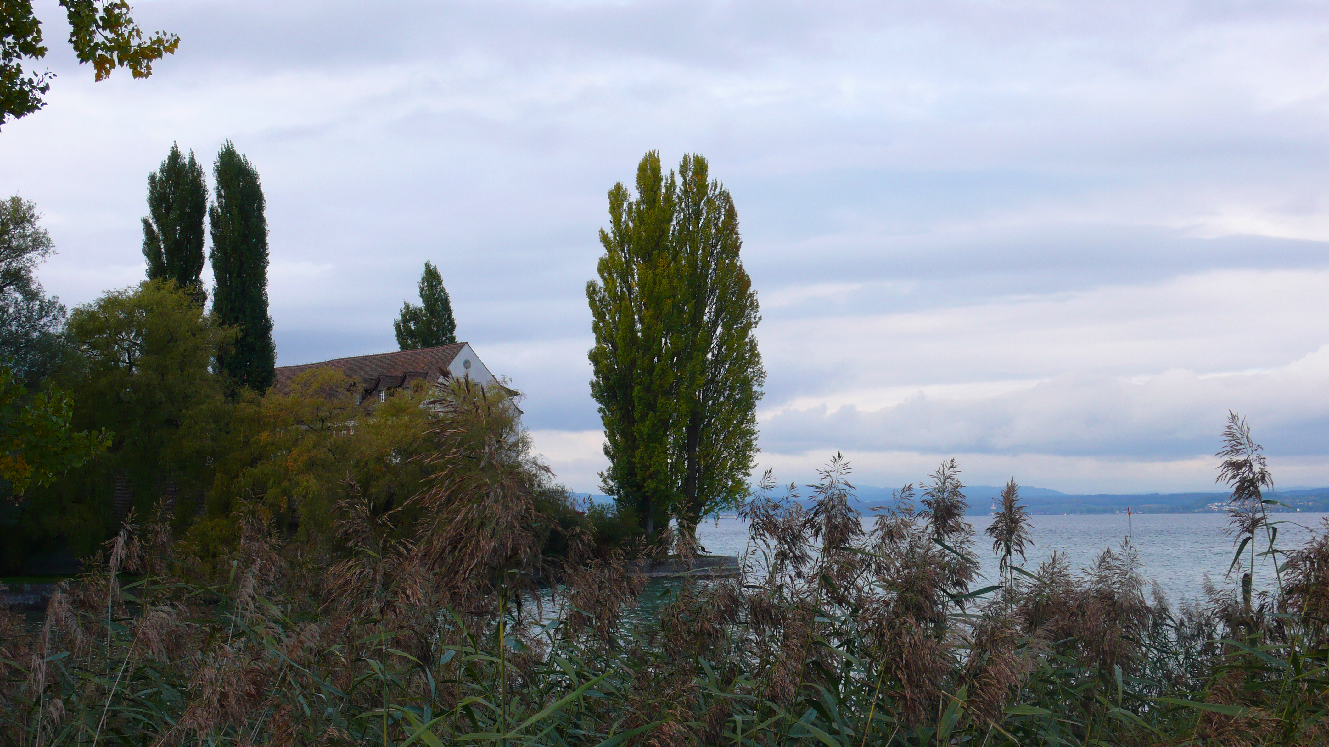 The former monastery of Münsterlingen at its old location on the shore of Lake Constance.